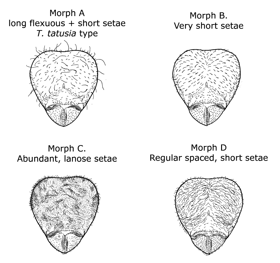 Visual representation of Tatuidris tatusia pilosity patterns. Embedded captions: "Morph A, Long flexuous + short setae, T. Tatusia type; Morph B, Very short setae; Morph C, Abundant, lanose setae; Morph D, Regular spaced, short setae"